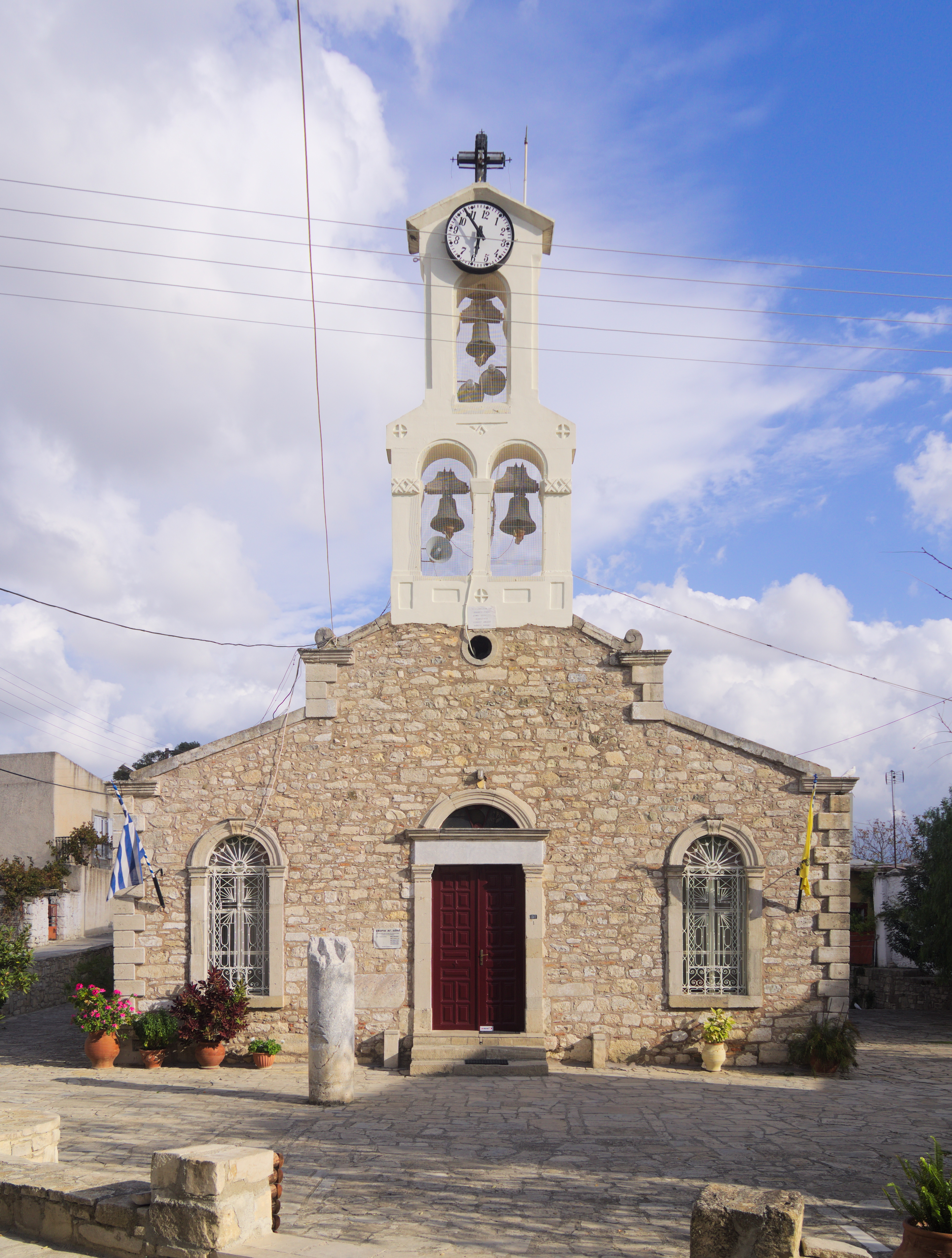 The byzantine church of Agioi Deka.